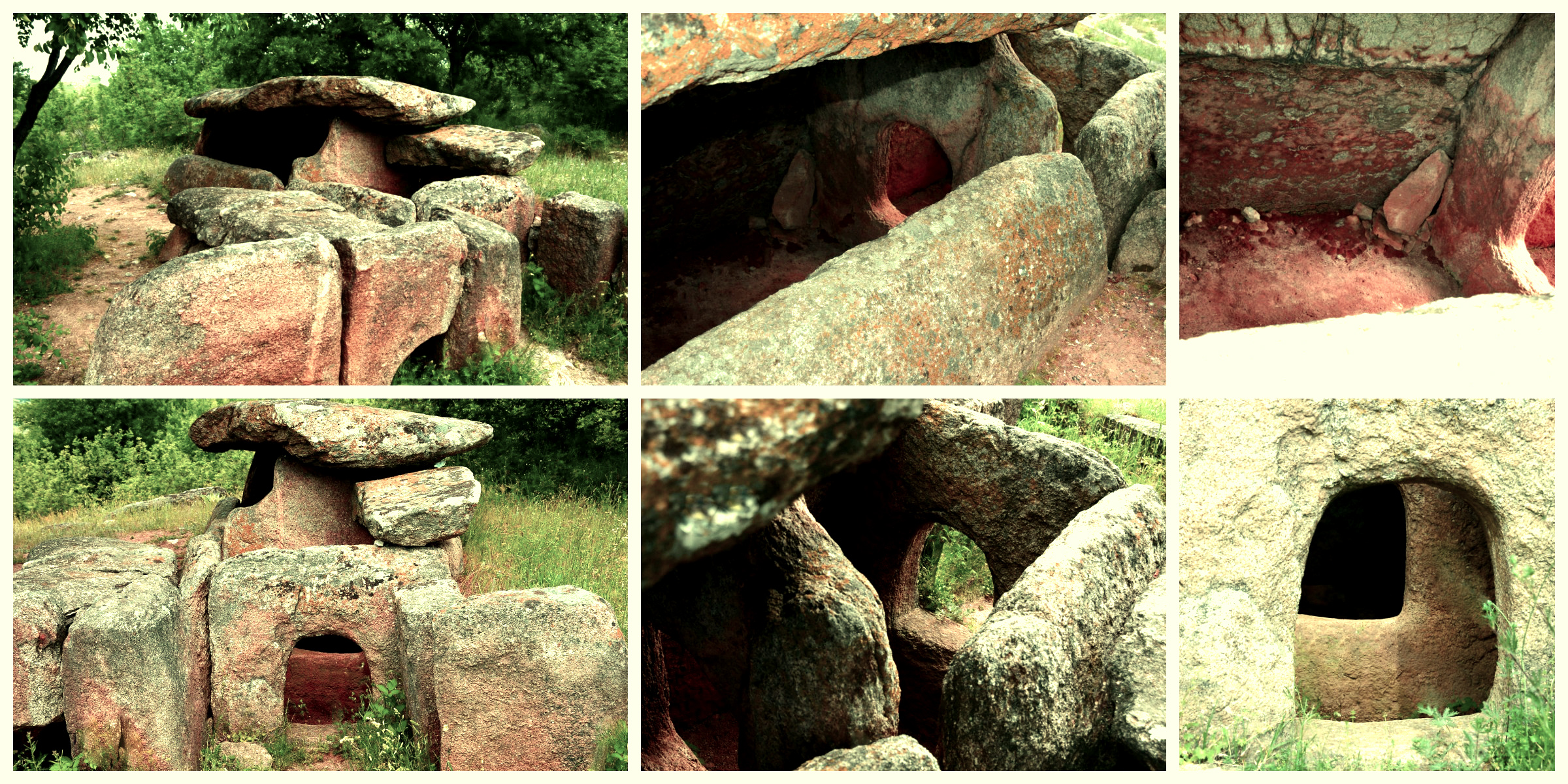 Tzarski_dolman_Hlyabovo_BG